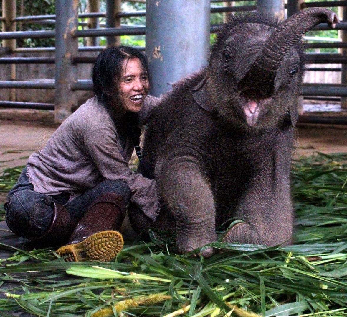 Our co=founder Lek with the new born park baby Navann